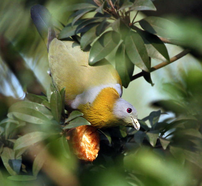 Yellow-foooted Green Pigeon Treron phoenicoptera at Narendrapur, West Bengal, India.